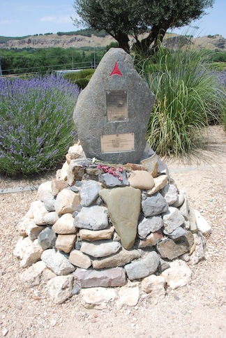 "even the olives are bleeding" are believed to be the last words of Charlie Donnelly, an irish poet who died at the battle of Jarama in 1937. The monument is located close to the M3 motorway approx 20 kilometres south east of Madrid at Rivas de Vaciamadrid